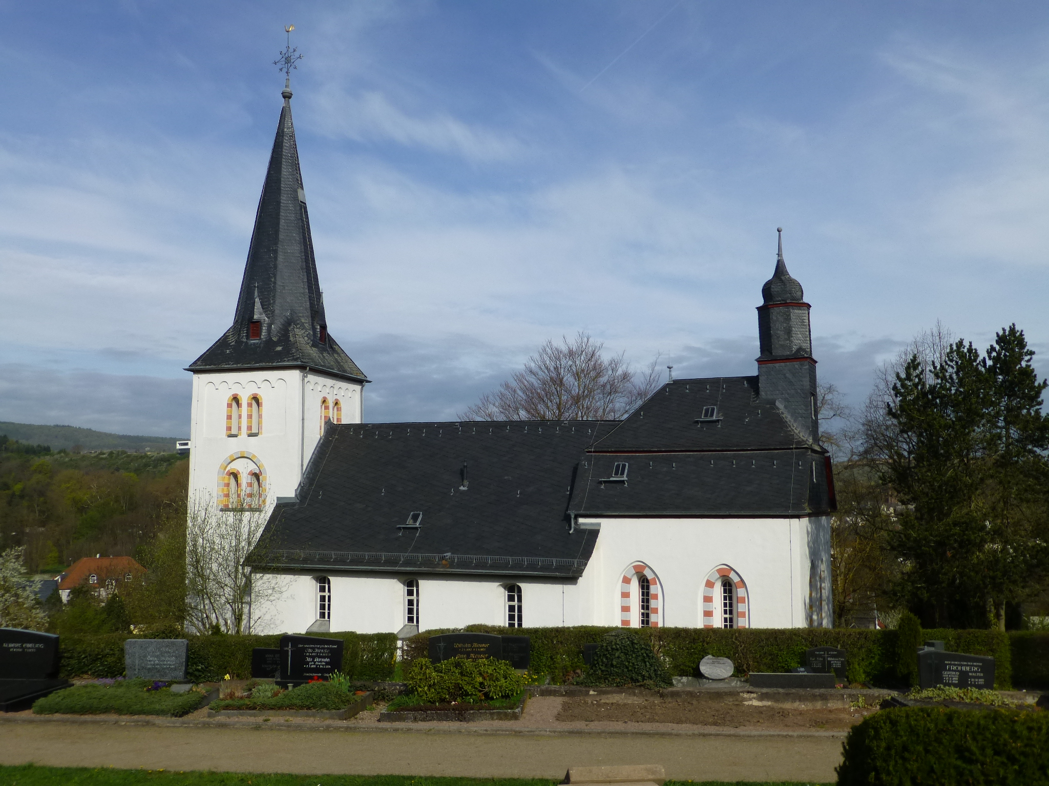 Church of Hahnstätten, Rhineland-Palatinate.